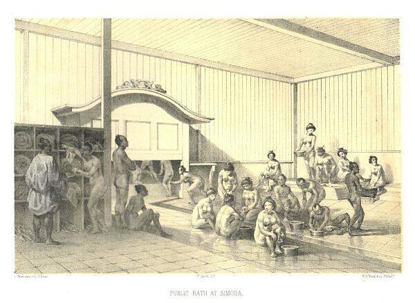 PUBLIC BATH AT SIMODA. (W.Heine) Narrative of the Expedition of an American Squadron to the China Seas and Japan, Performed in the Years of 1852, 1852, and 1854, Under the Command of Commodore M. C. Perry